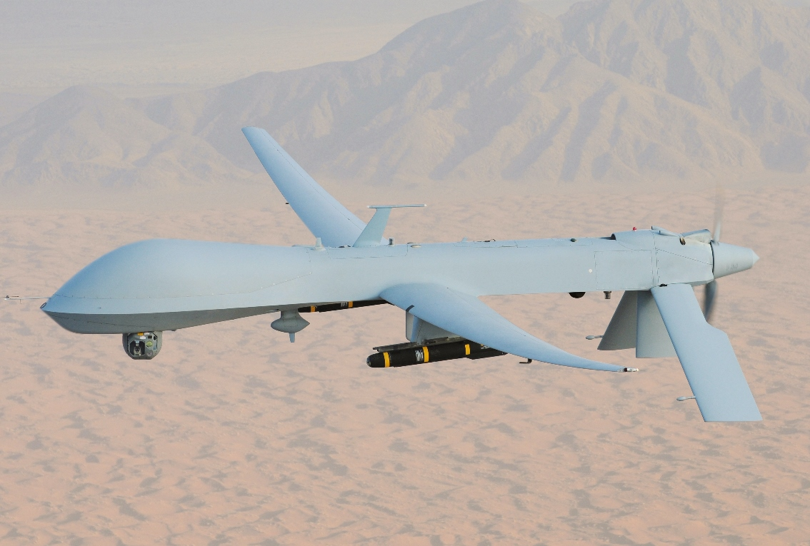 An MQ-1 Predator, armed with AGM-114 Hellfire missiles, piloted by Lt. Col. Scott Miller on a combat mission over southern Afghanistan. (U.S. Air Force Photo / Lt. Col. Leslie Pratt)